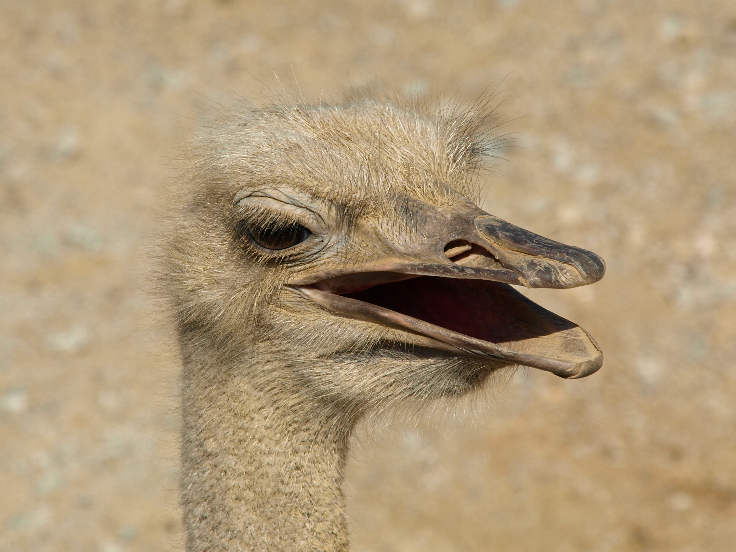 Ostrich (Struthio camelus) - Barcelona (Spain)